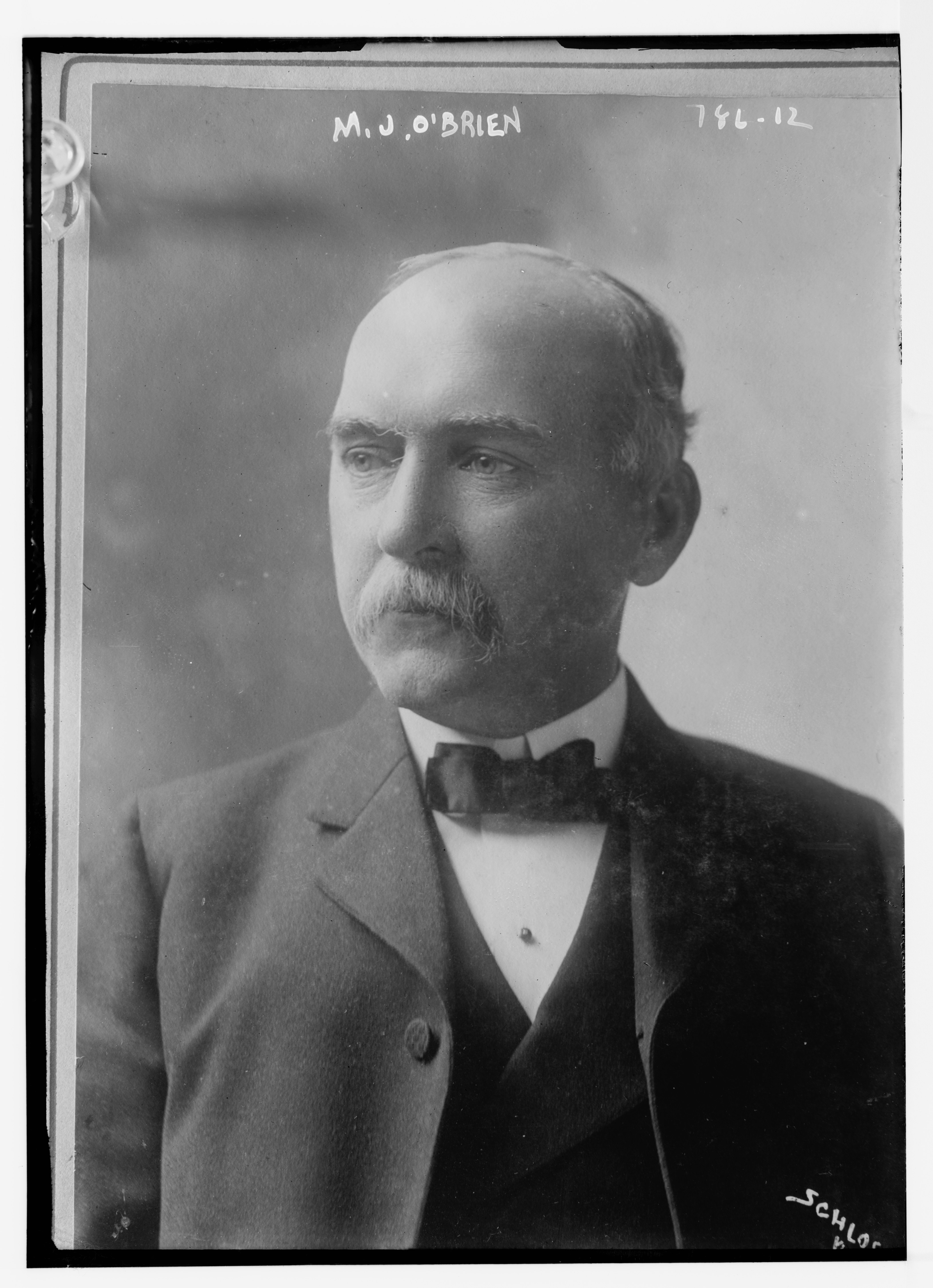 Title: M.J. O'Brien Abstract/medium: 1 negative : glass ; 5 x 7 in. or smaller.